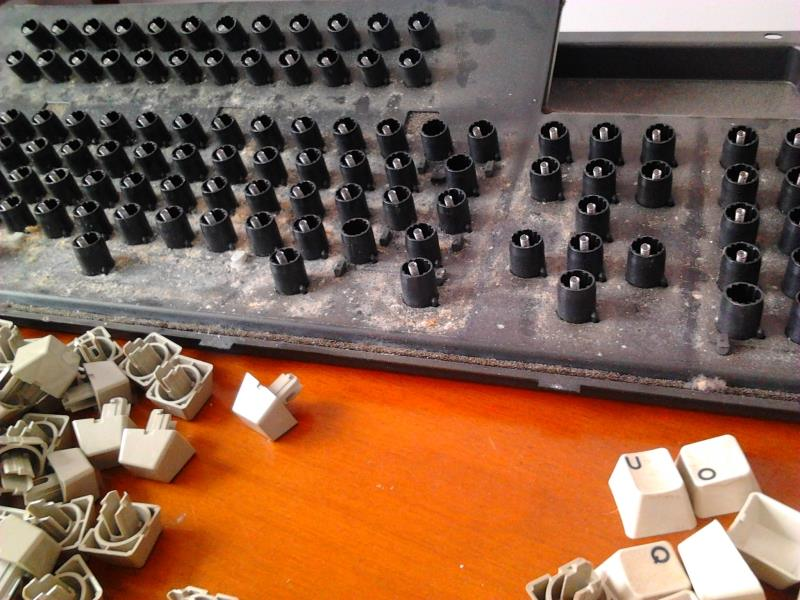 An example of corrosion developing on a Model F top metal board.